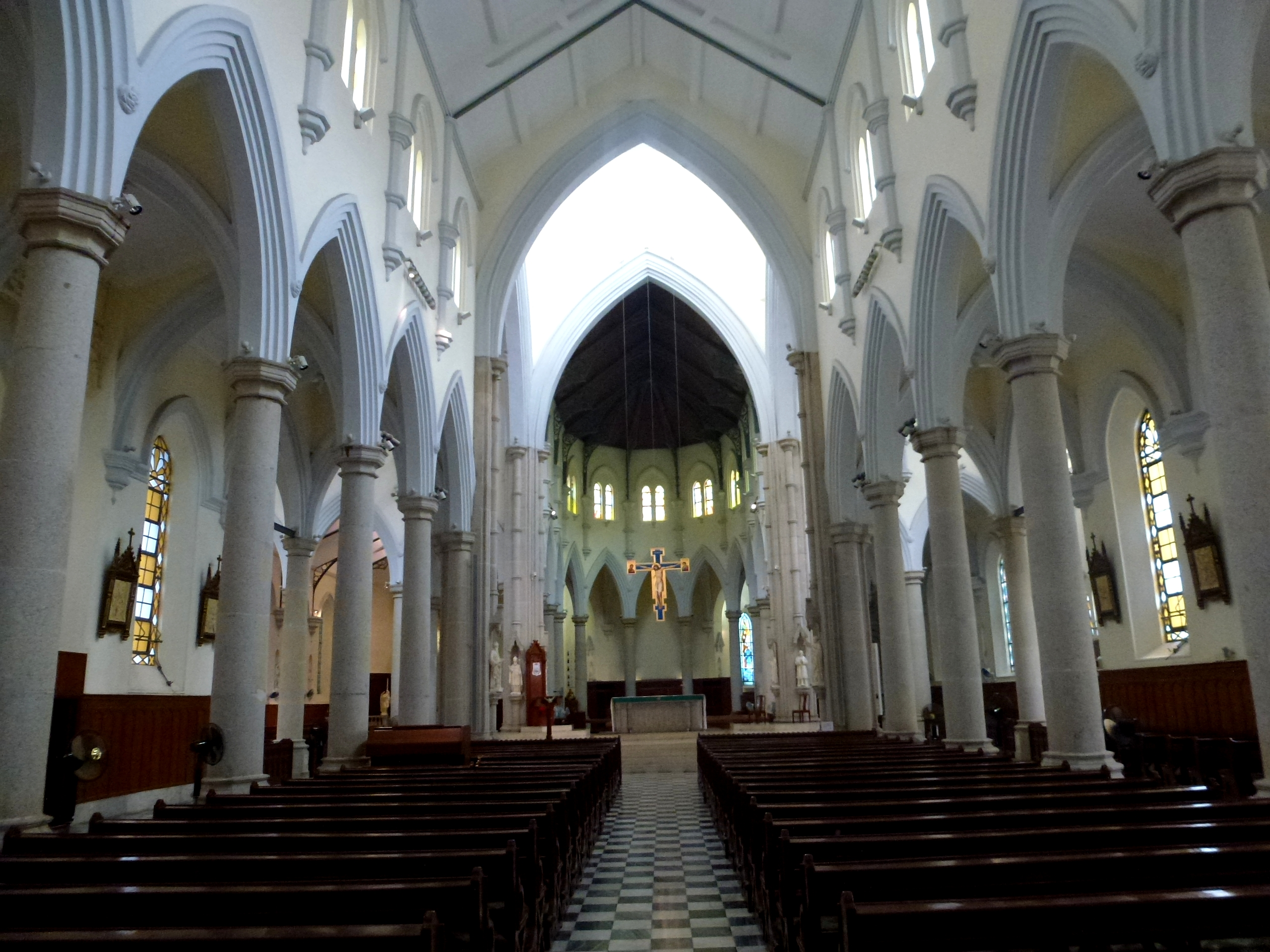 Hong Kong Catholic Cathedral Hong KonH